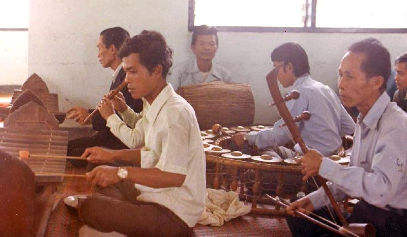 Laotian musicians during a “Basi” or “ Soukhouane” held in Long Tieng, Laos. Photo taken in July 1973.